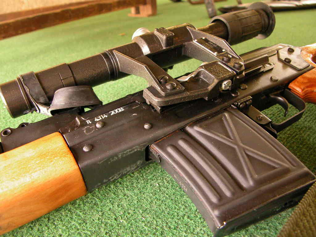 DCB Shooting Romanian PSL rifle